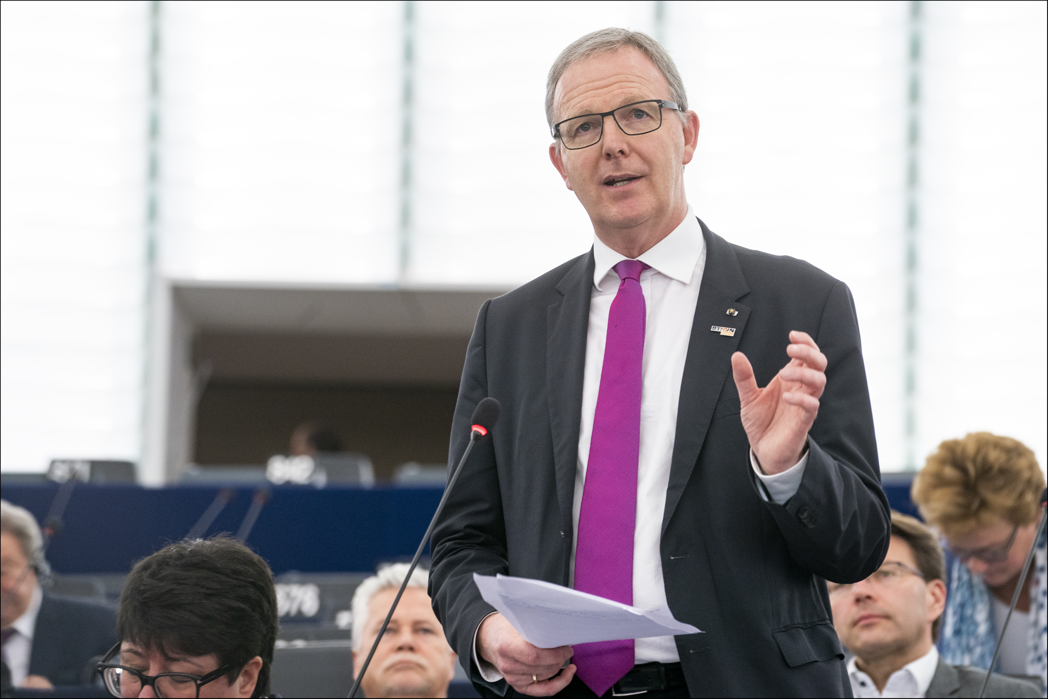 To read about the topic, check out compilation here: This photo is free to use under Creative Commons license CC-BY-4.0 and must be credited: "CC-BY-4.0: © European Union 2019 – Source: EP". No model release form if applicable. For bigger HR files please contact: webcom-flickr(AT)